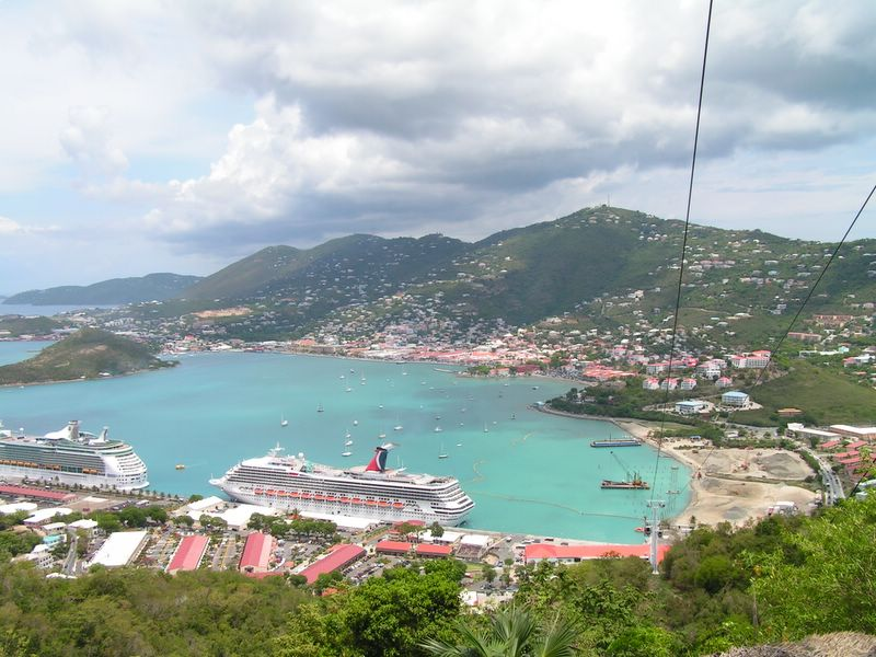 View of St. Thomas Harbor and Charlotte Amalie from Paradis point — located on St. Thomas island, in the United States Virgin Islands. Tip of Hassel Island at far left.